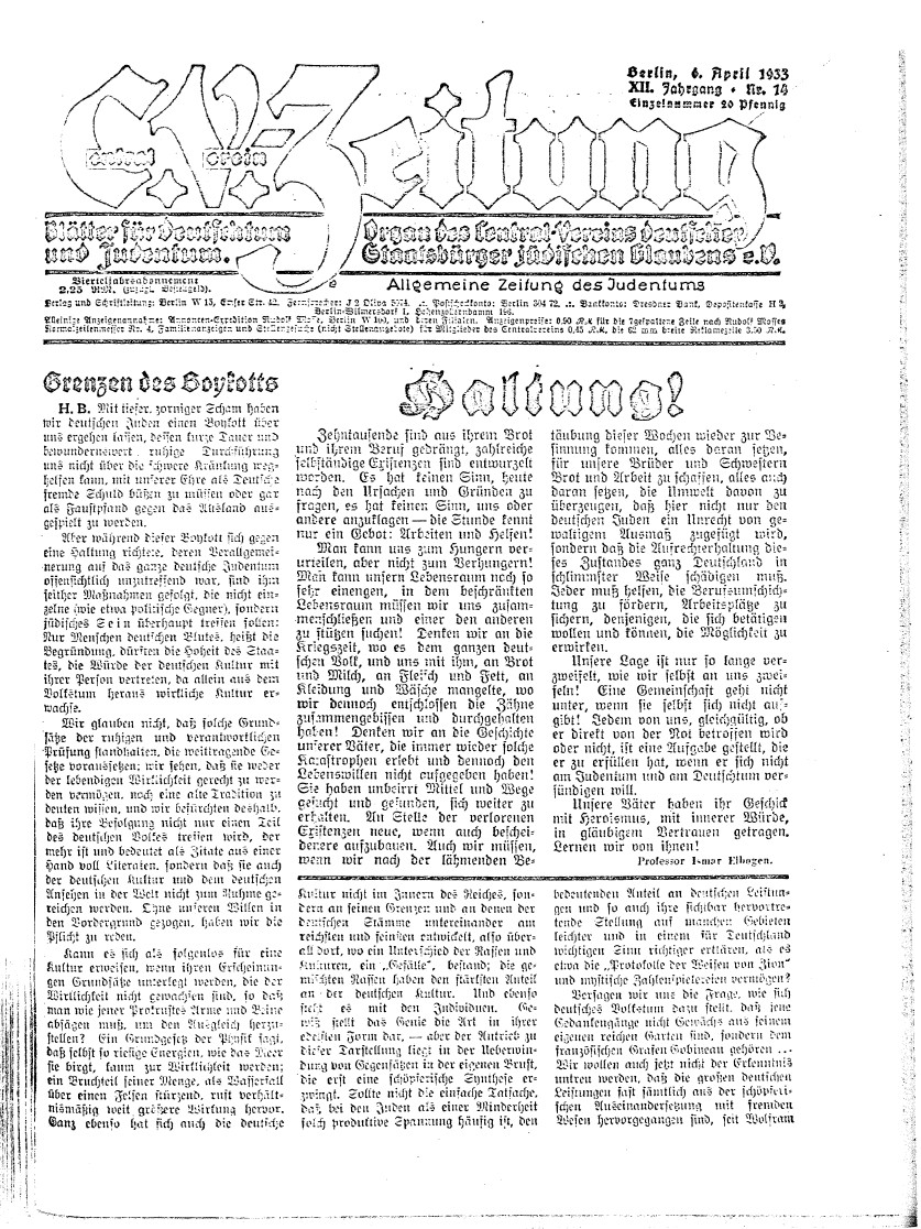 Cover page of CV-Zeitung,1933-04-06